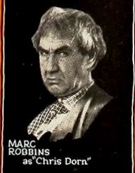 American actor Marc Robbins, from an advertisement for the American western film Riders of the Dawn (1920), on page 4268 of the May 22, 1920 Motion Picture News.